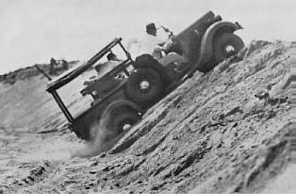 Marmon-Harrington All-Wheel-Drive converted Ford 1/2 ton truck. Sometimes called the "Grandfather of the Jeep". Delivered in small numbers to the Belgian Army and some other countries circa 1936.